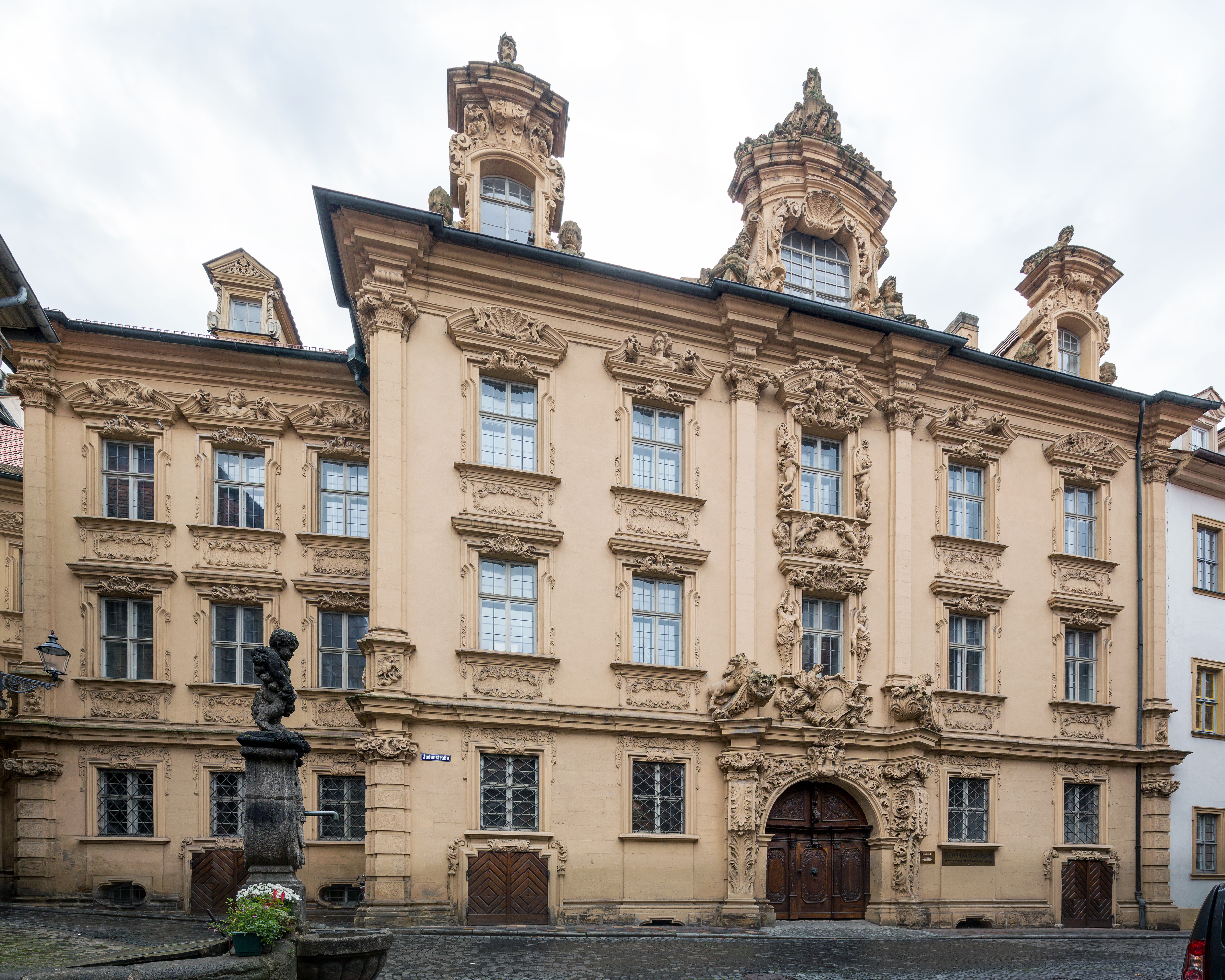 Bamberg: Judenstraße (Jews Street) 14 as seen from the northeast